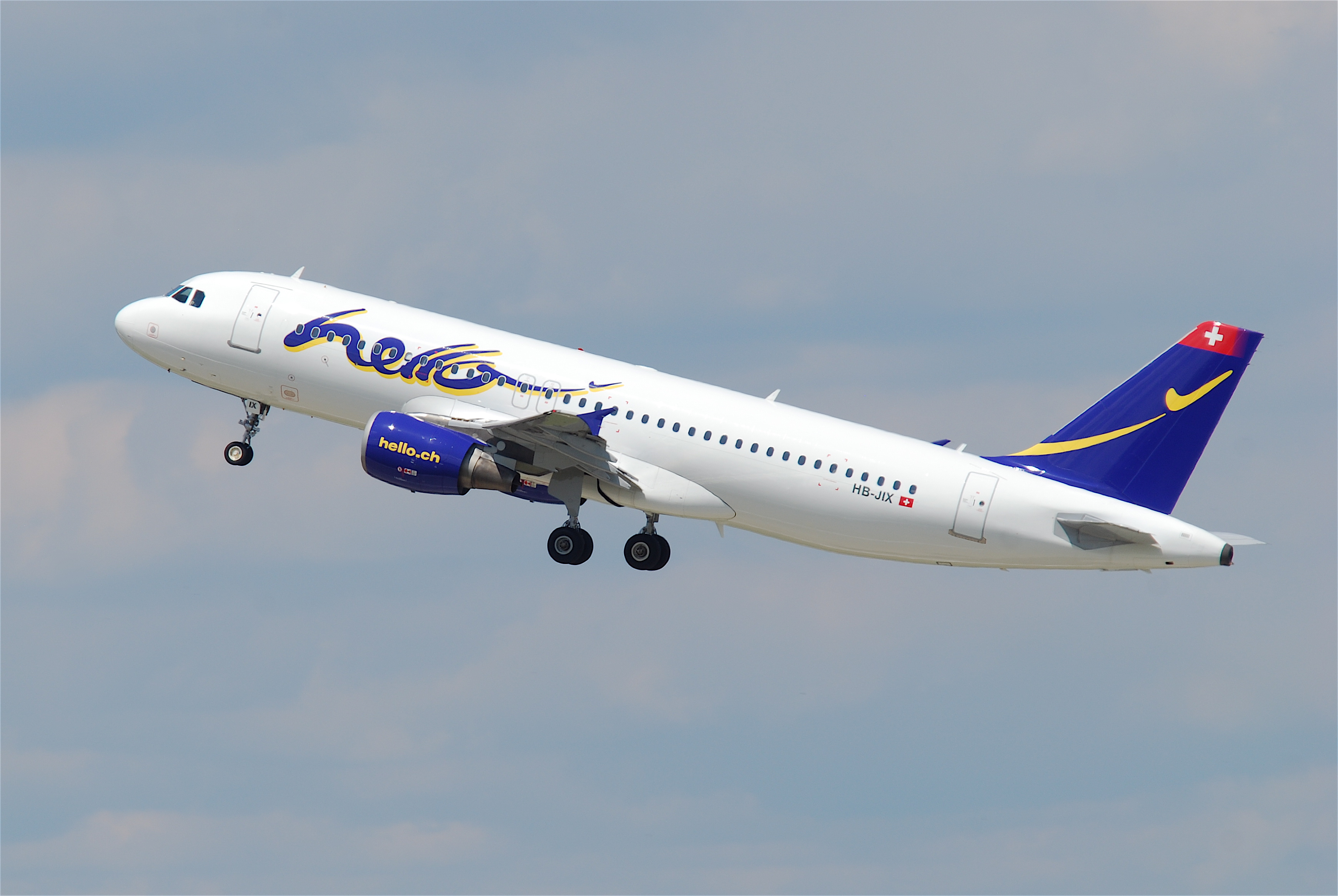 Hello Air Airbus A320-214; HB-JIX@ZRH;02.07.2011/602br